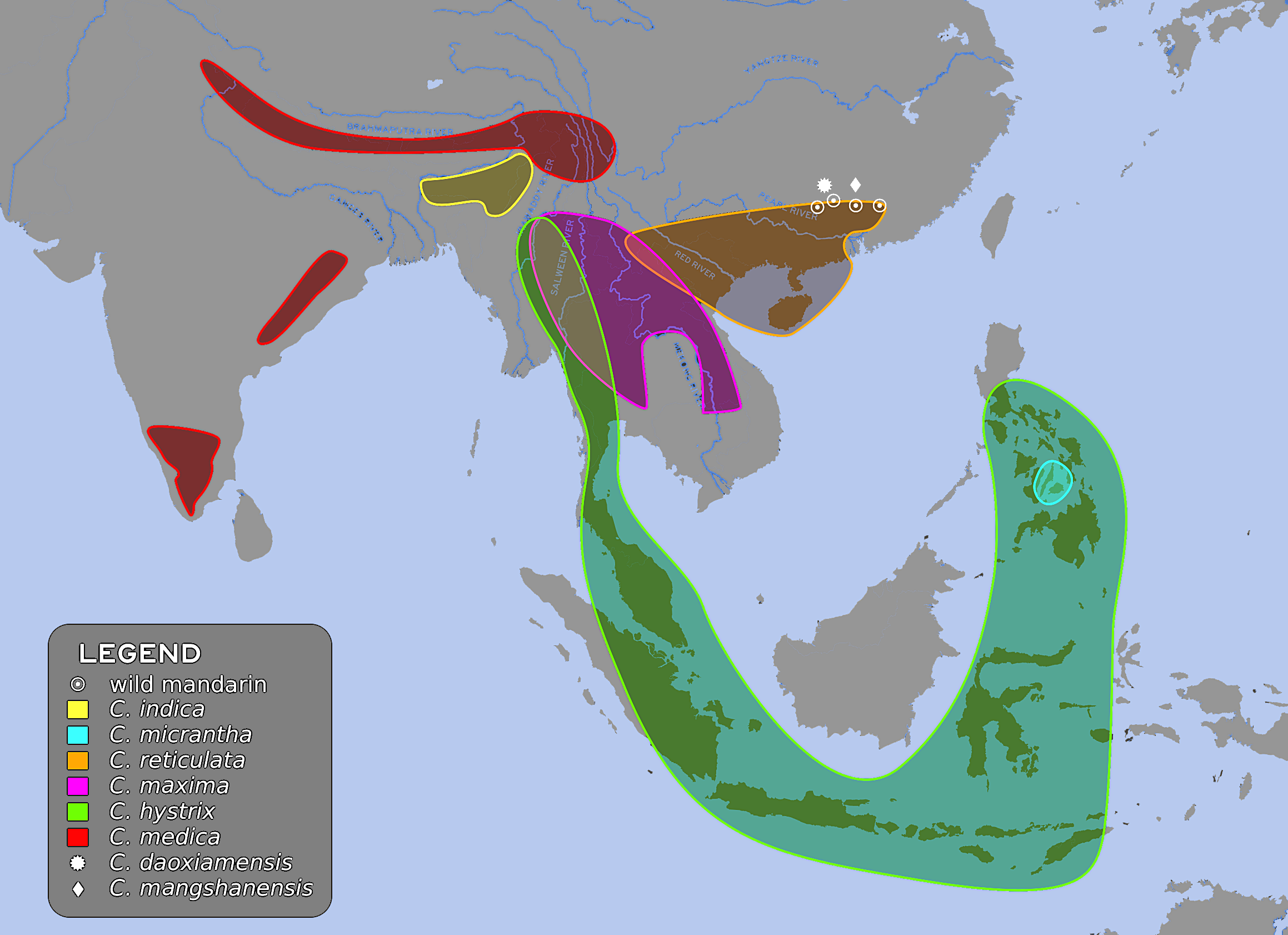 Map of inferred original wild ranges of the main Citrus cultivars, and selected relevant wild taxa. Per: Fuller, Dorian Q.; Castillo, Cristina; Kingwell-Banham, Eleanor; Qin, Ling; Weisskopf, Alison (2017). "Charred pomelo peel, historical linguistics and other tree crops: approaches to framing the historical context of early Citrus cultivation in East, South and Southeast Asia". In Zech-Matterne, Véronique; Fiorentino, Girolamo. AGRUMED: Archaeology and history of citrus fruitin the Mediterranean. Publications du Centre Jean Bérard. pp. 29–48. ISBN 9782918887775.